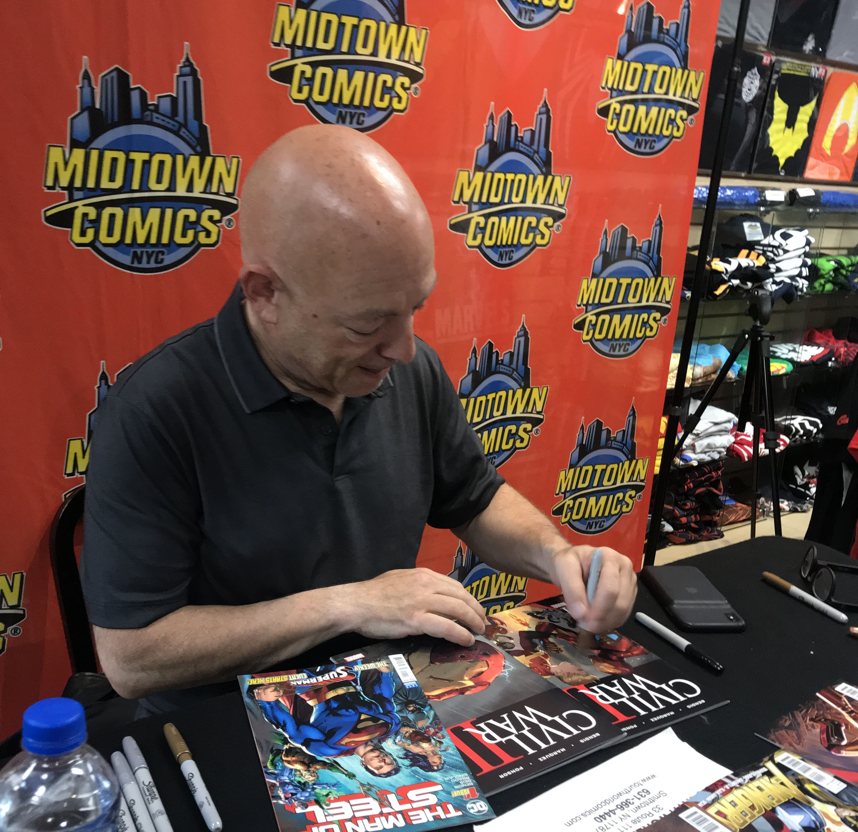 Comics writer Brian Michael Bendis at a July 24, 2019 open book signing at Midtown Comics Downtown in Lower Manhattan. In the photo, Bendis is signing a copies of Civil War II and The Man of Steel. This photo was created by Luigi Novi. It is not in the public domain, and use of this file outside of the licensing terms is a copyright violation.